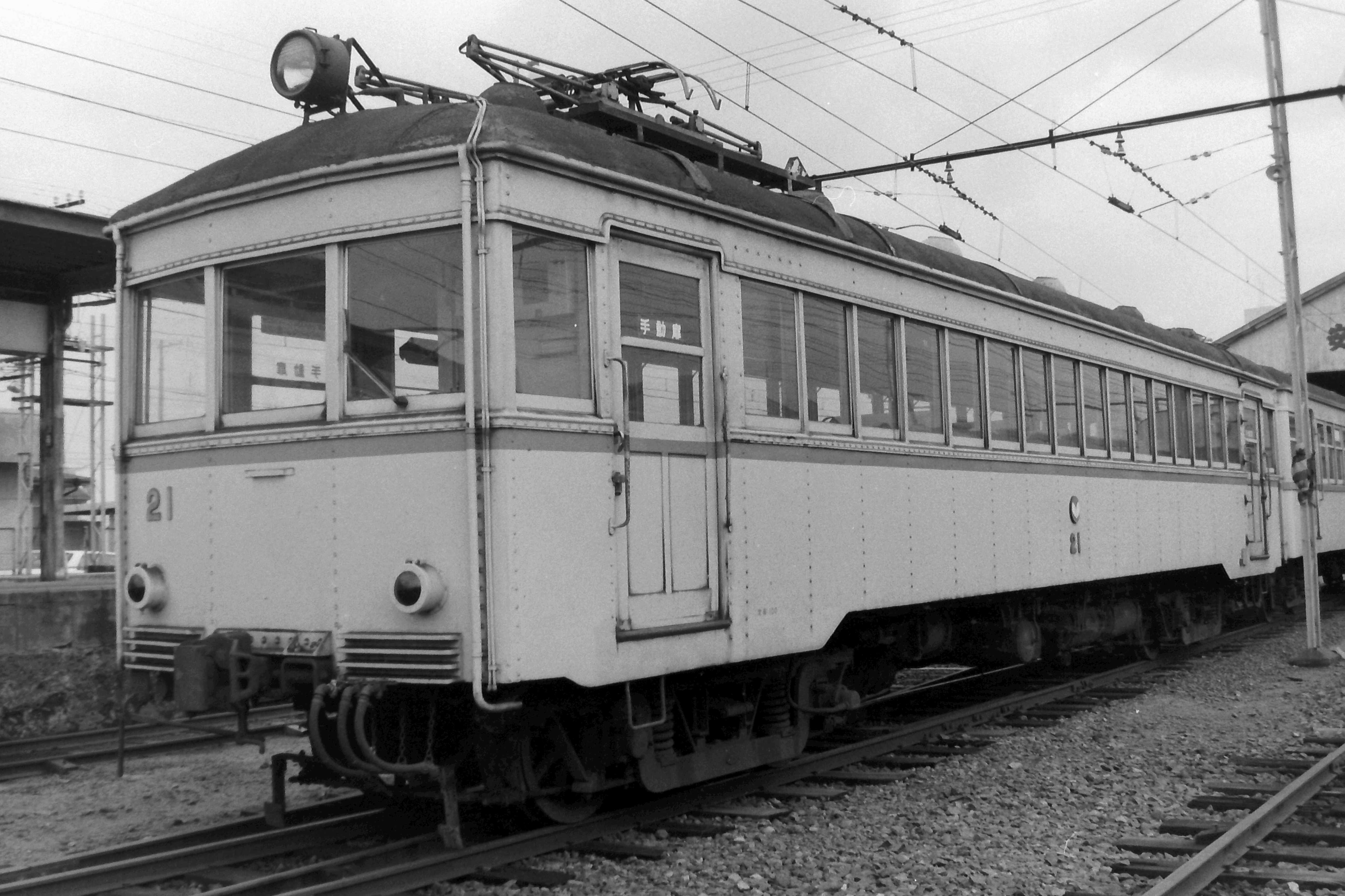 Ichibata 21 EMU at Hirata depot. The picture taken under permission.